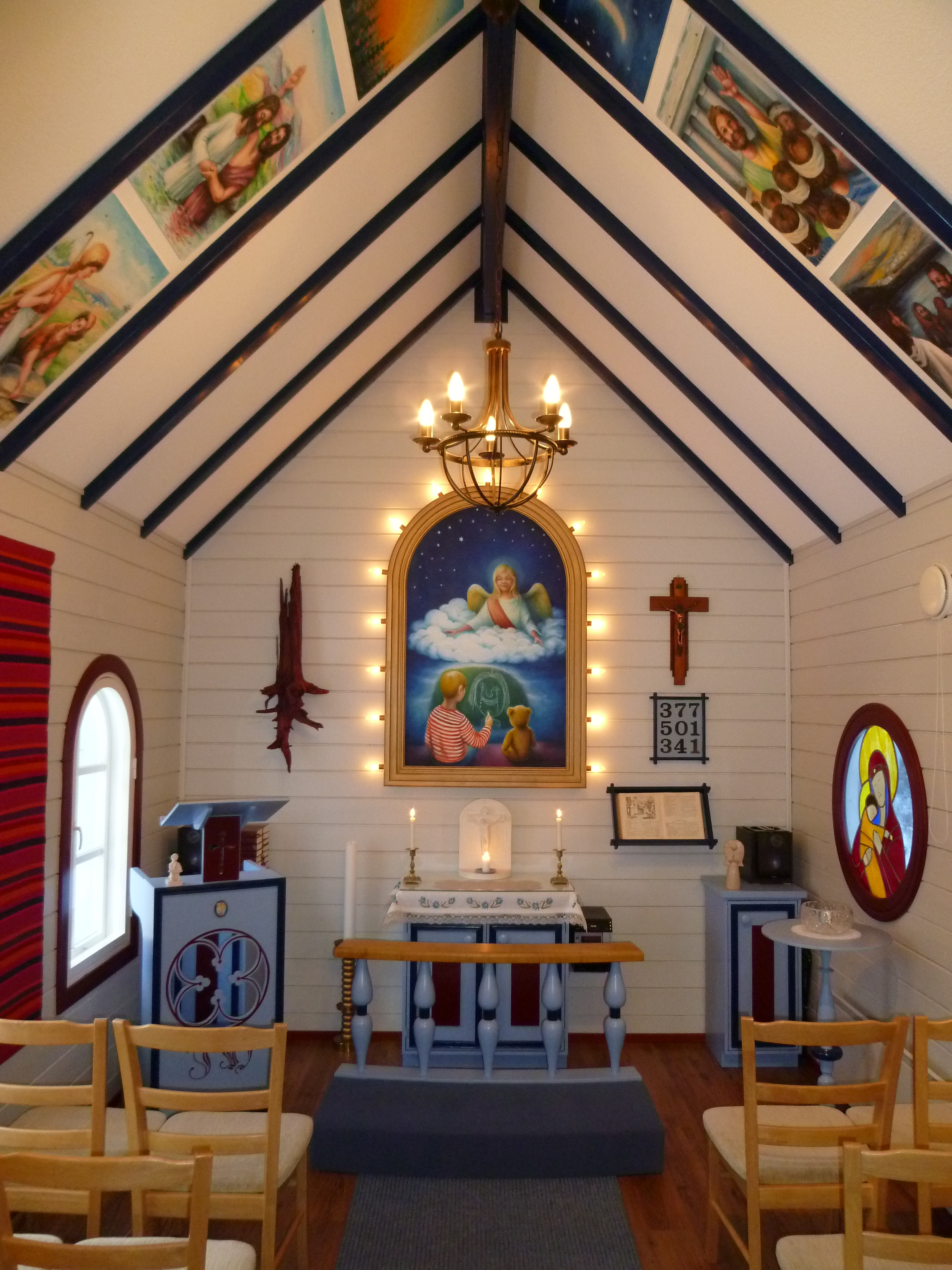 Rauhan temppeli inside.